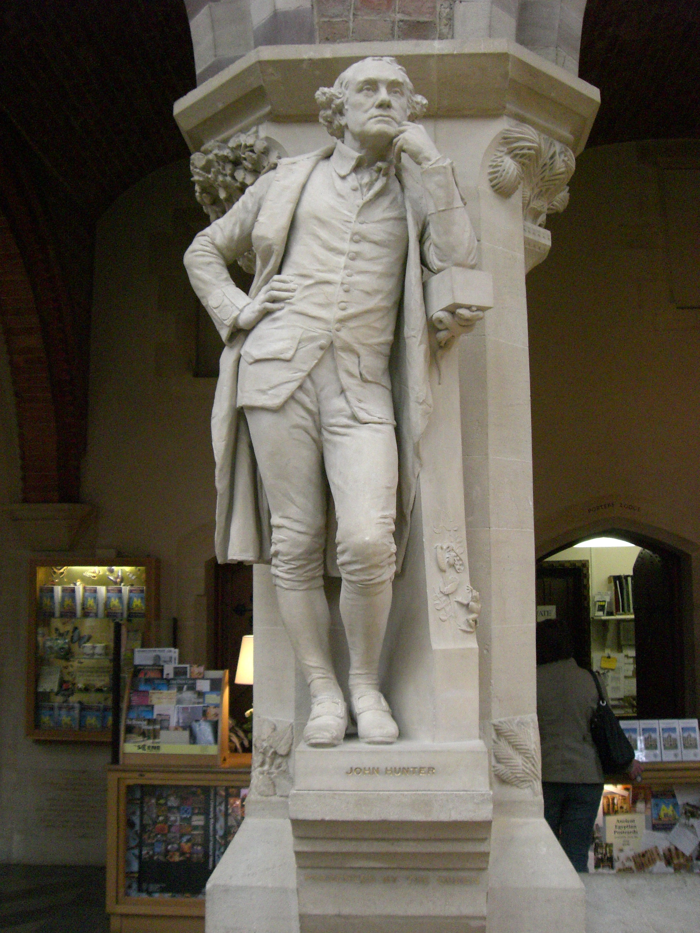 Statue of John Hunter at the Oxford University Museum of Natural History